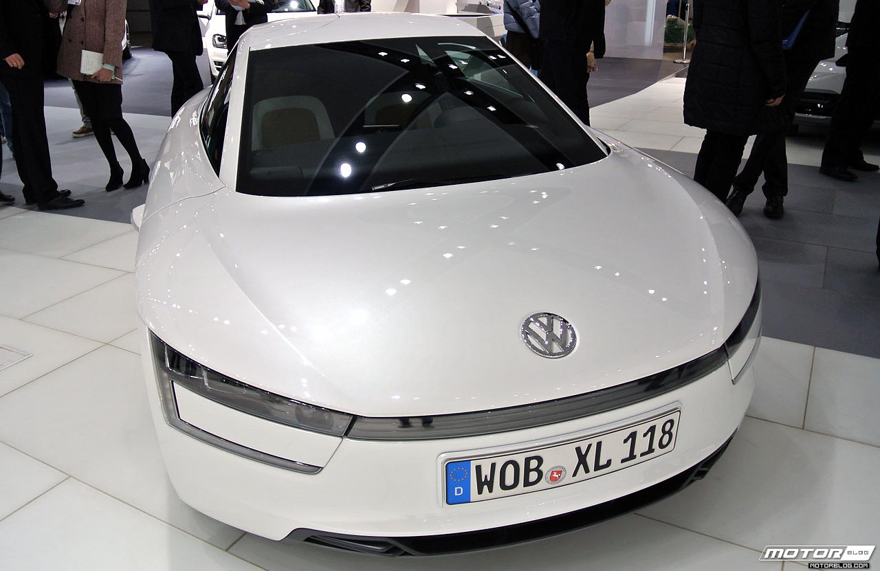 Volkswagen XL1 at Hannover Messe 2013 _________________ Please feel free to use this image for FREE under the Creative Commons (CC) licence. However, if you use the image, pls set a backlink to and give credit as following: "Image: ". For highres images or any other inquiries pls contact mailto: . Thanks.